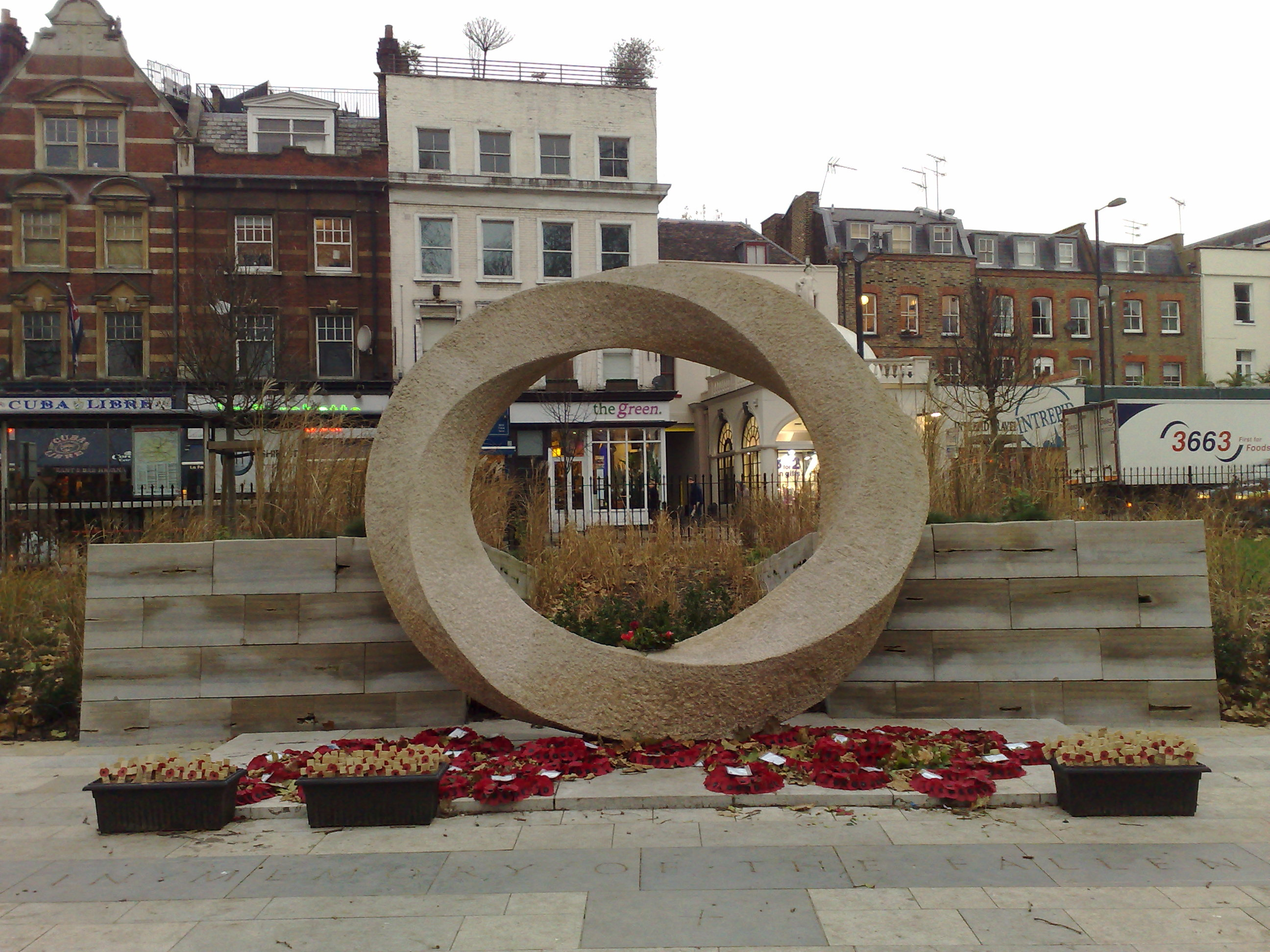 is this a theme with the halo at angel shopping arcade?